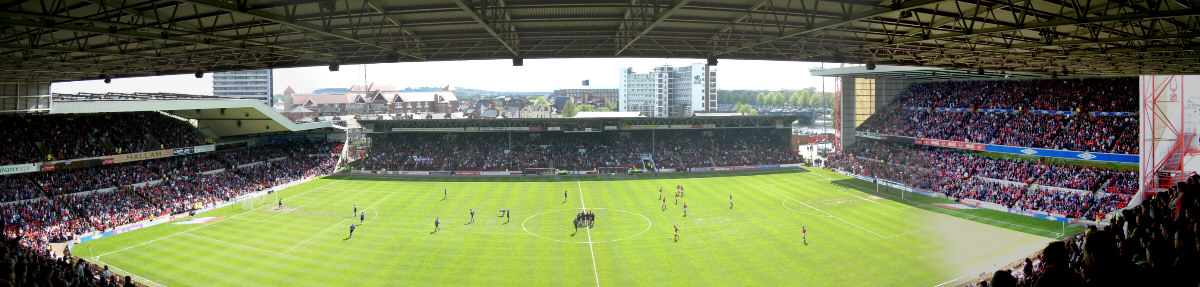 City Ground Nottingham - View from Brian Clough Stand Upper